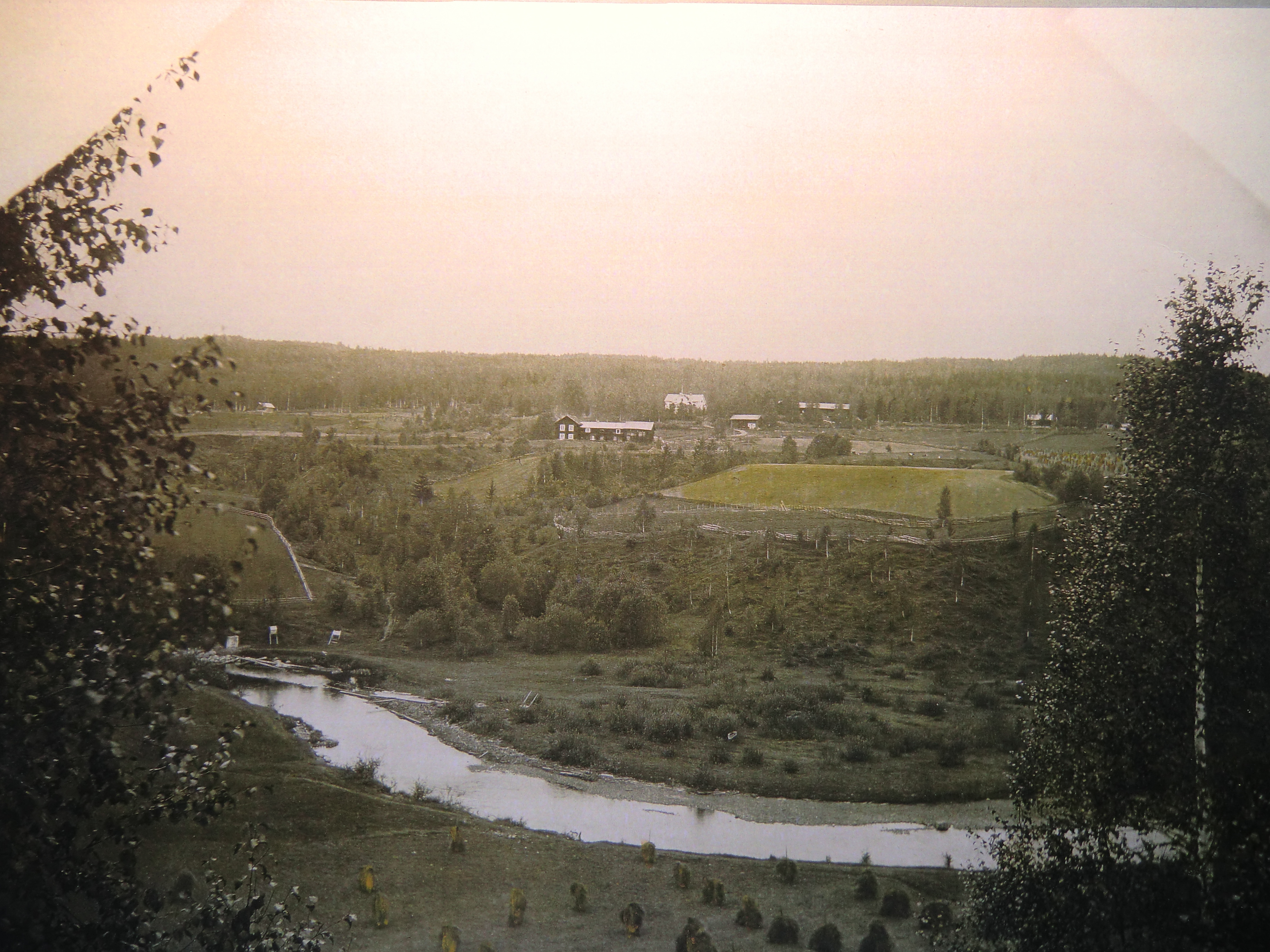 River Granån in Gräsmark, Värmland. Photo is taken around the year 1900.